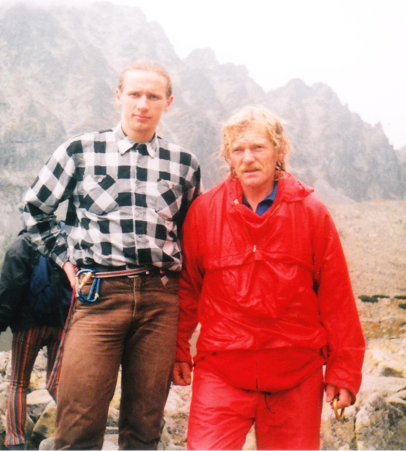 Wieslaw Stachowiak (left) and Vladimir Tatarka (right) climbing Gerlach